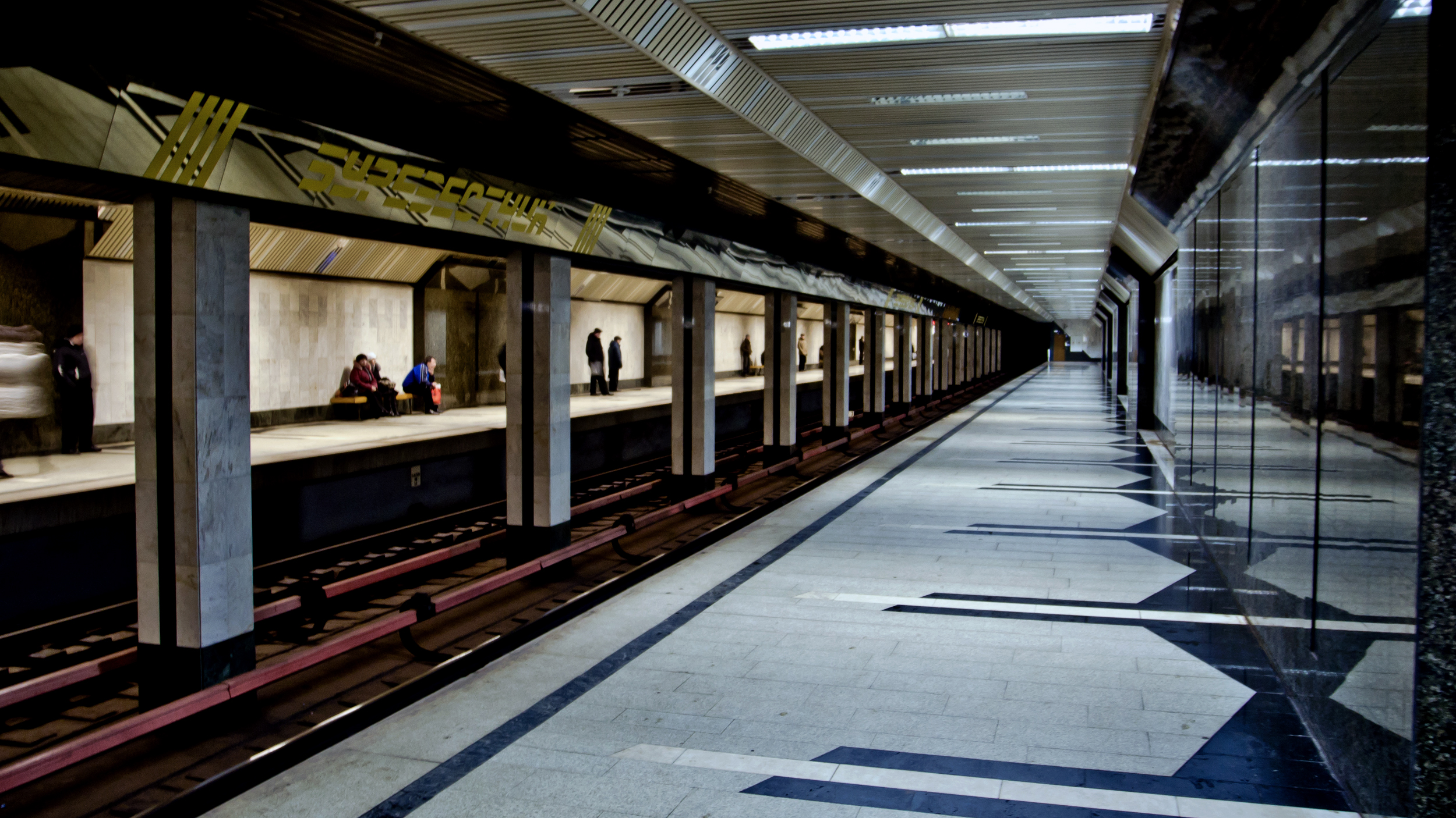 Burevestnik station of Nizhny Novgorod Subway